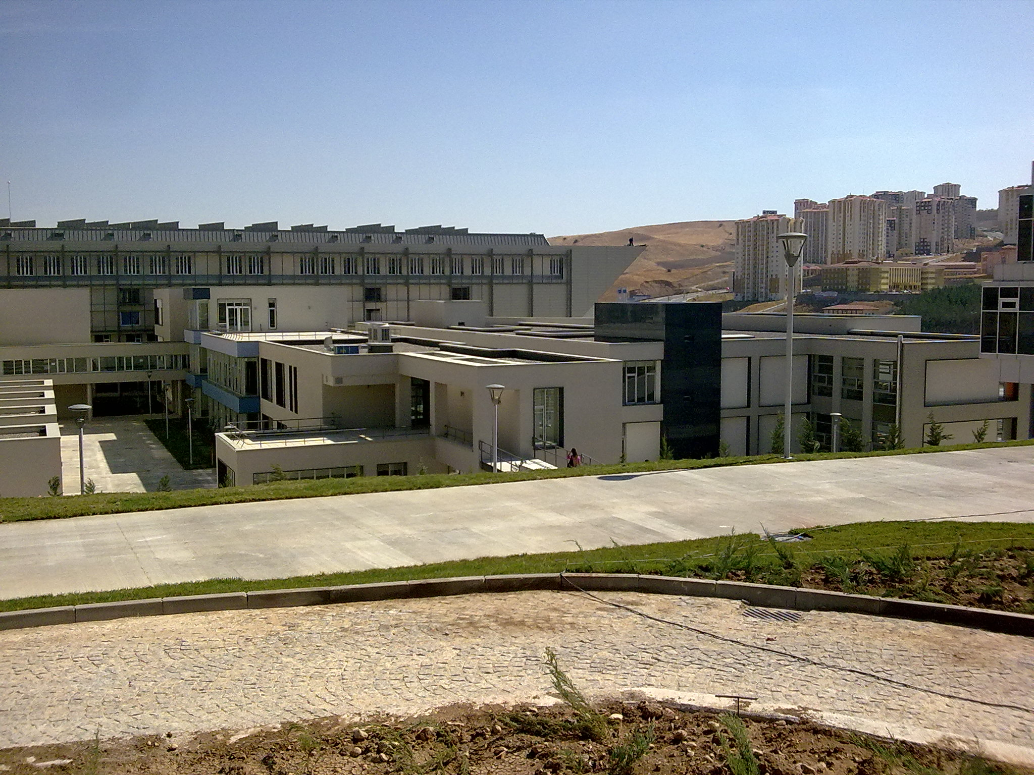 A view of the Çankaya University Turkuaz campusTürkçe: Çankaya Üniversitesi'nin Turkuaz kampüsünden bir görünüm